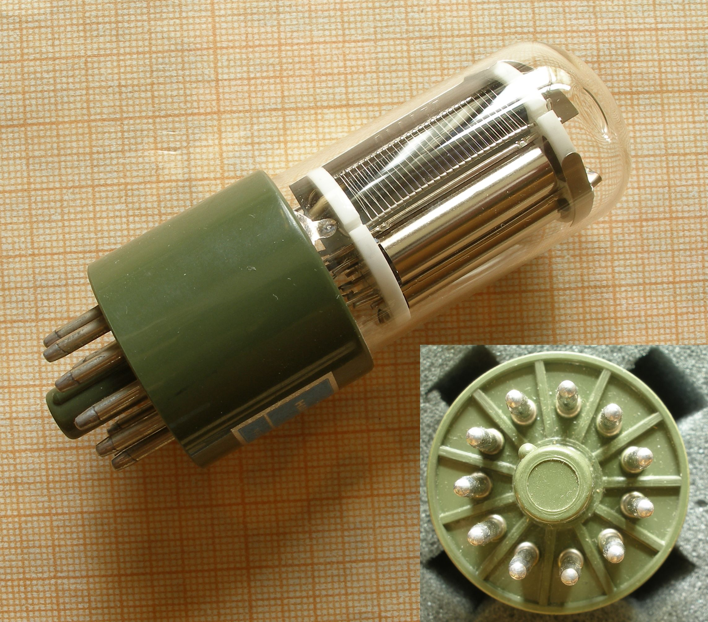 Japanese photomultiplier HAMAMATSU R446